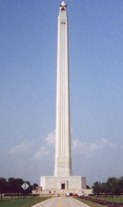 Base of San Jacinto Monument